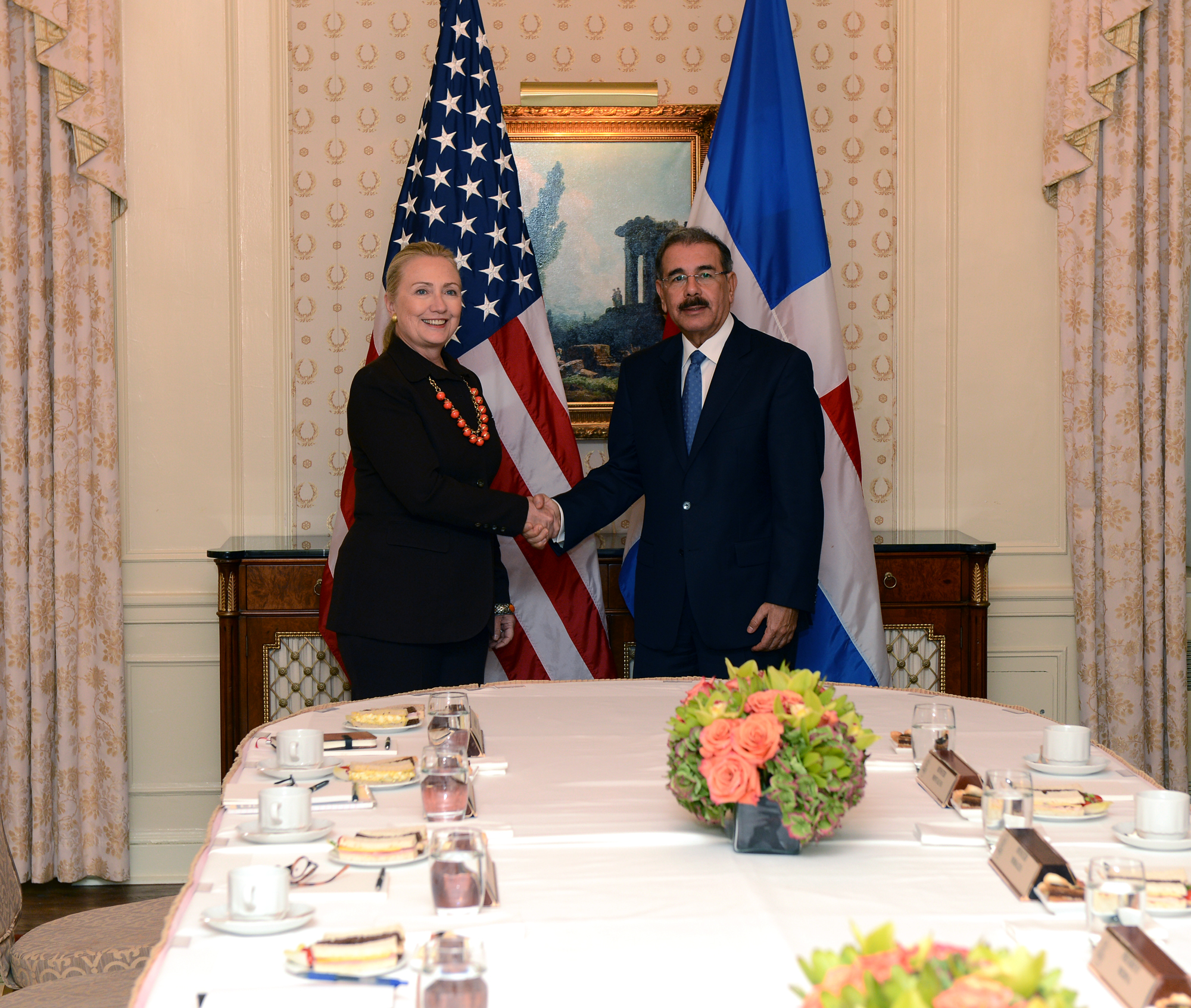 U.S. Secretary of State Hillary Rodham Clinton meets with Dominican Republic President Danilo Medina in New York, New York on September 23, 2012. [State Department photo/ Public Domain]